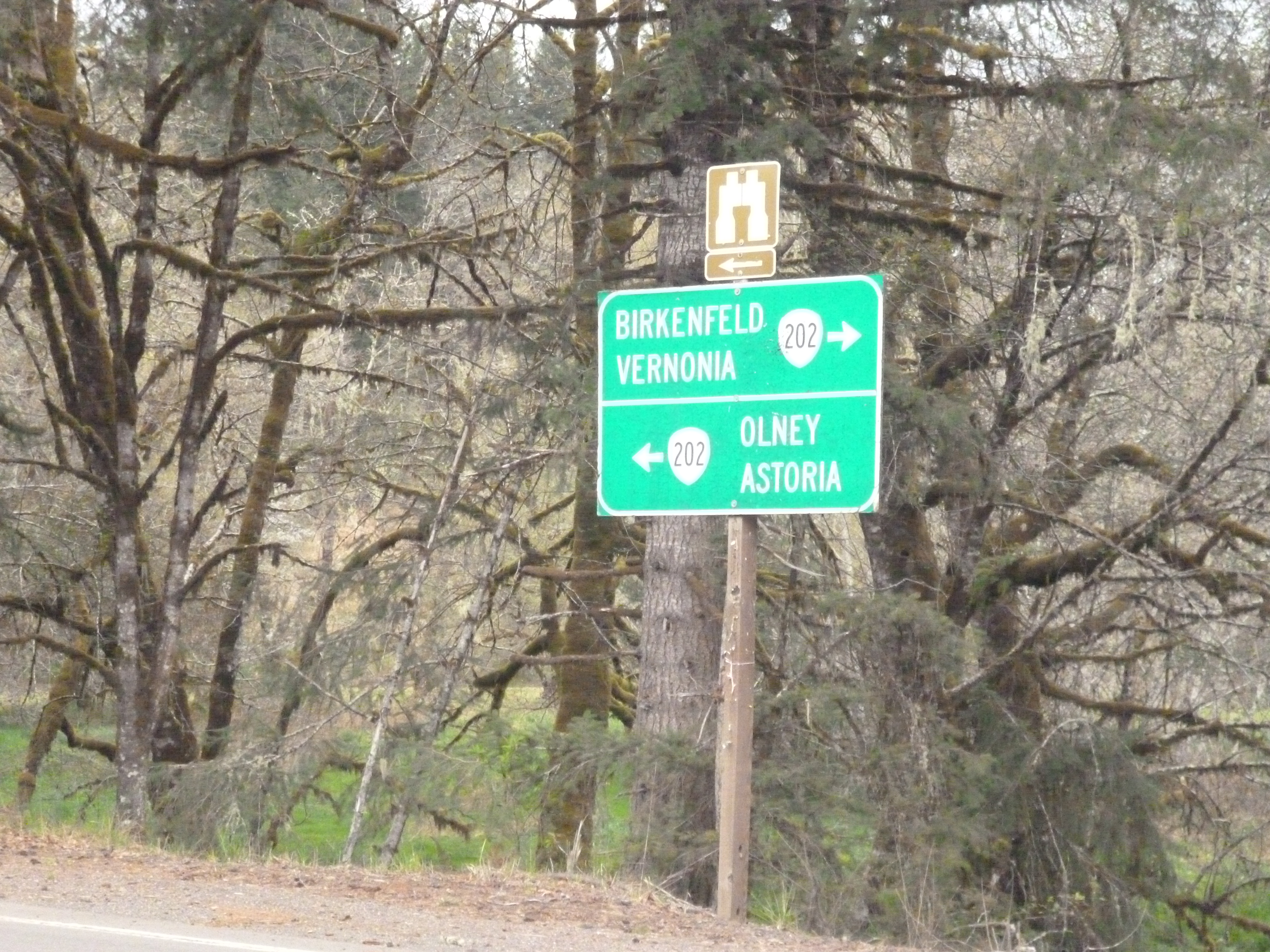 Direction sign on Oregon Route 202 in Jewell, Oregon.